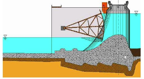 Figure 4-6. Bonneville Spillway With Submerged Spillway